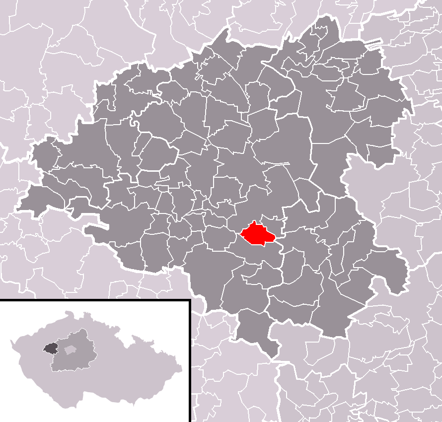 Location of Všetaty municipality within Rakovník District and (identical) administrative area of Rakovník as a Municipality with Extended Competence.